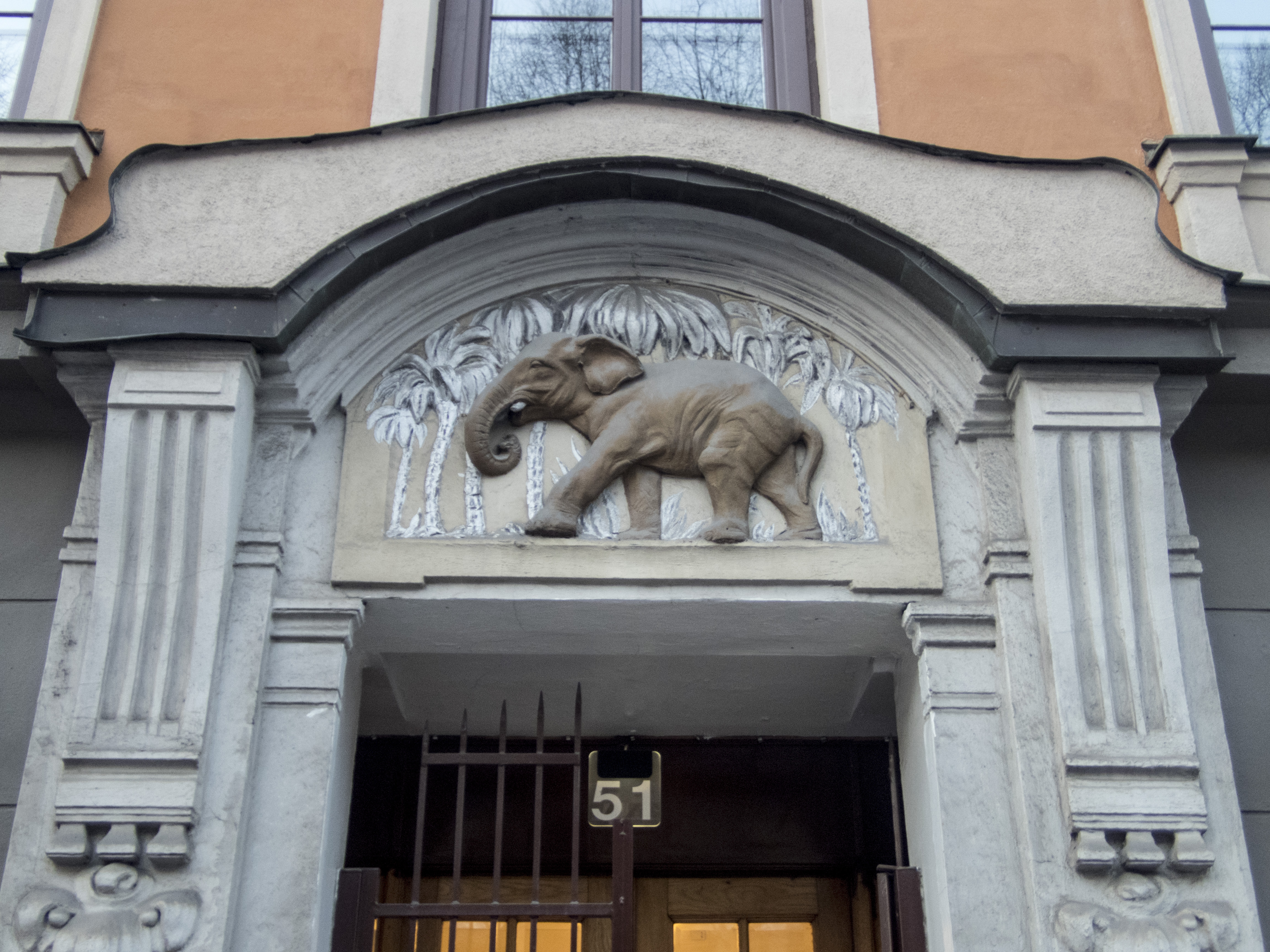 Port till tidigare Apoteket Elefanten. Karlavägen 51 i Stockholm.